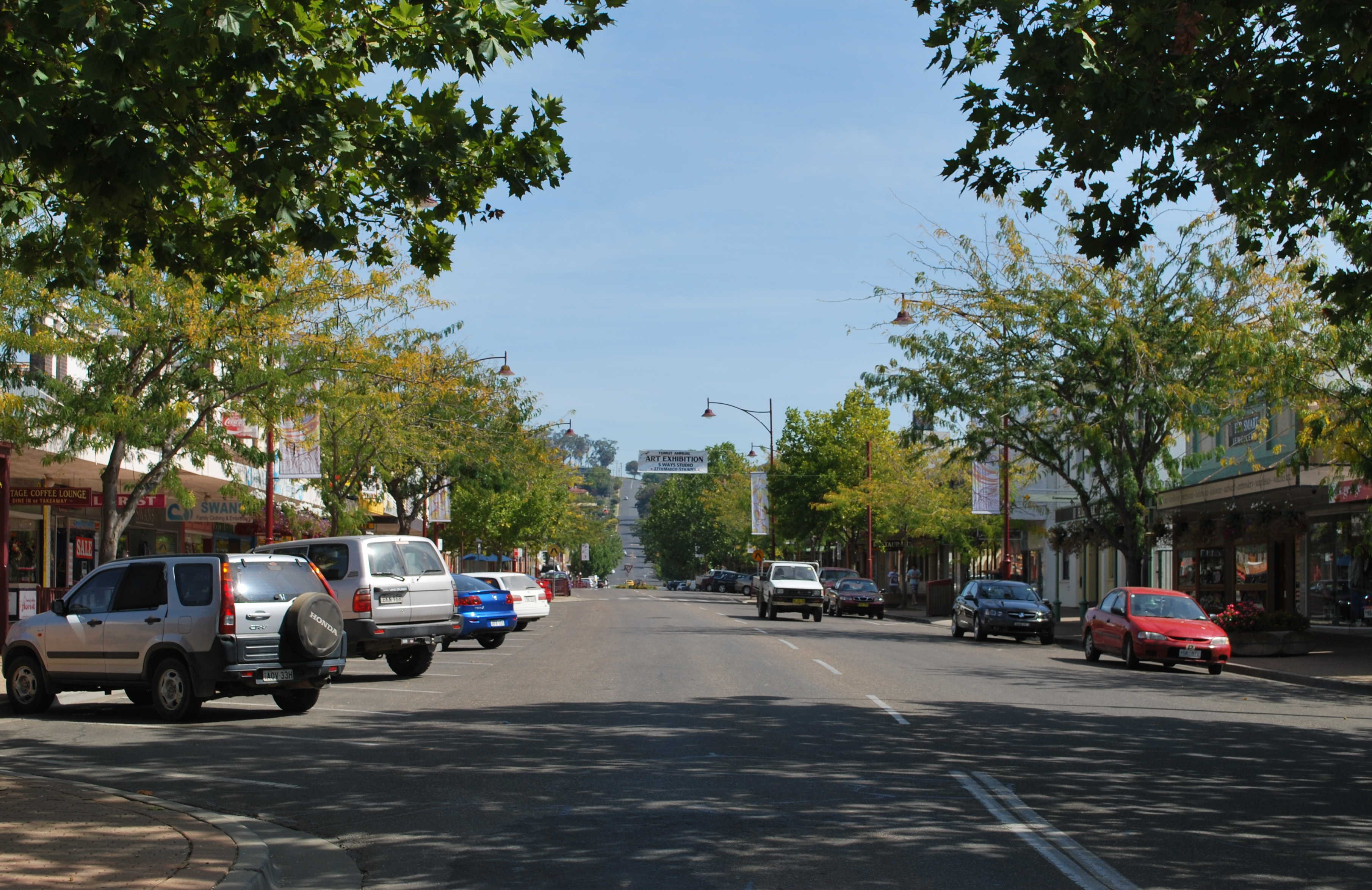 Wynyard St, the main street of Tumut, New South Wales